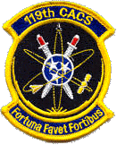 119th Command and Control Squadron unit logo